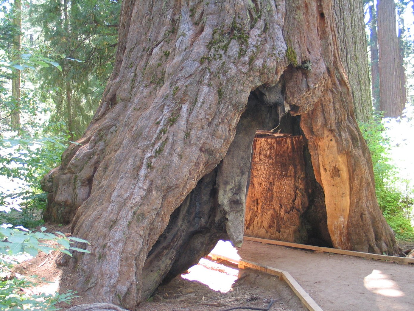 Tunnel in the Pioneer Cabin Tree, cut in the 1880s to compete for attention with Yosemite's Wawona Tree